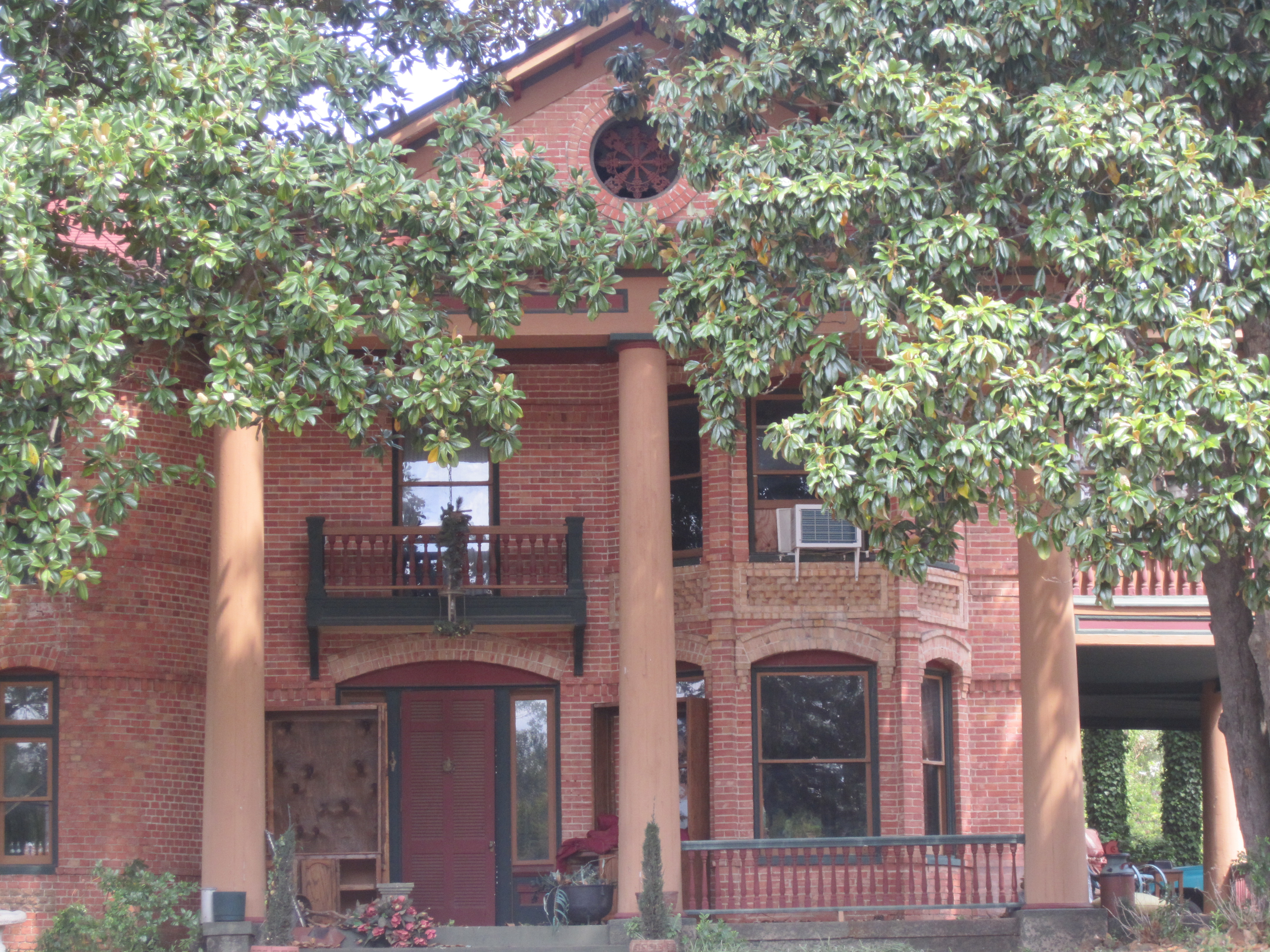 I took photo of former residence of U.S. Rep. and Judge John Watkins in Minden, LA, with Canon camera.